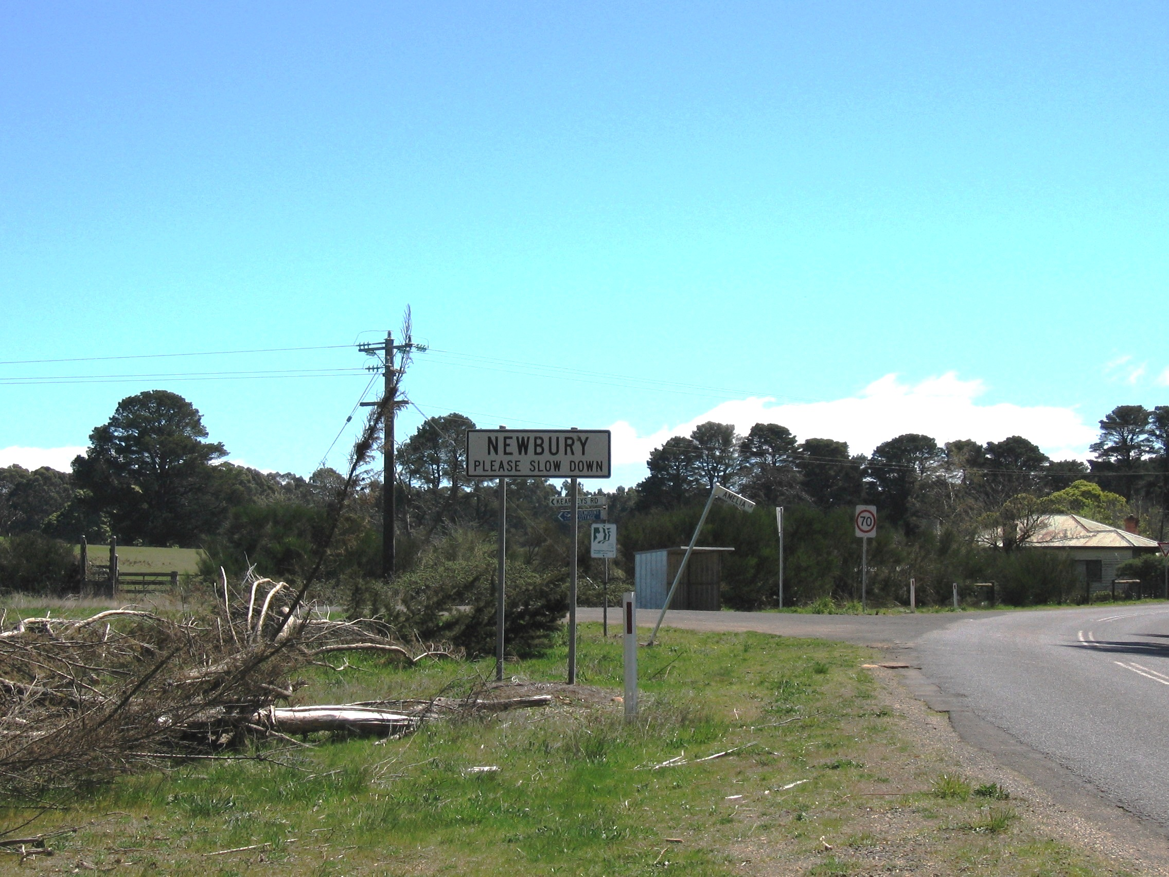 Town entry sign at Newbury, Victoria